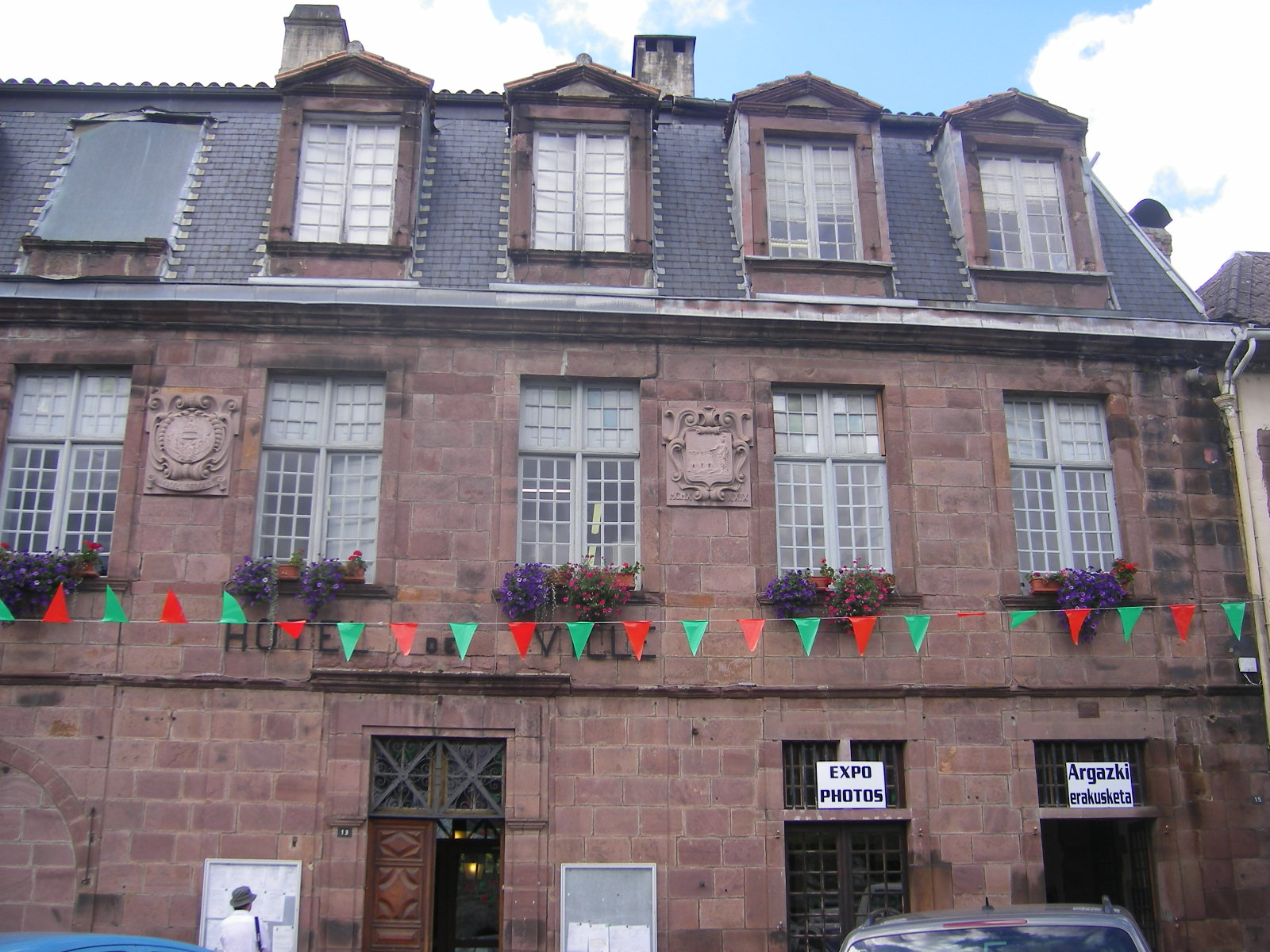 Saint-Jean-Pied-de-Port town hall